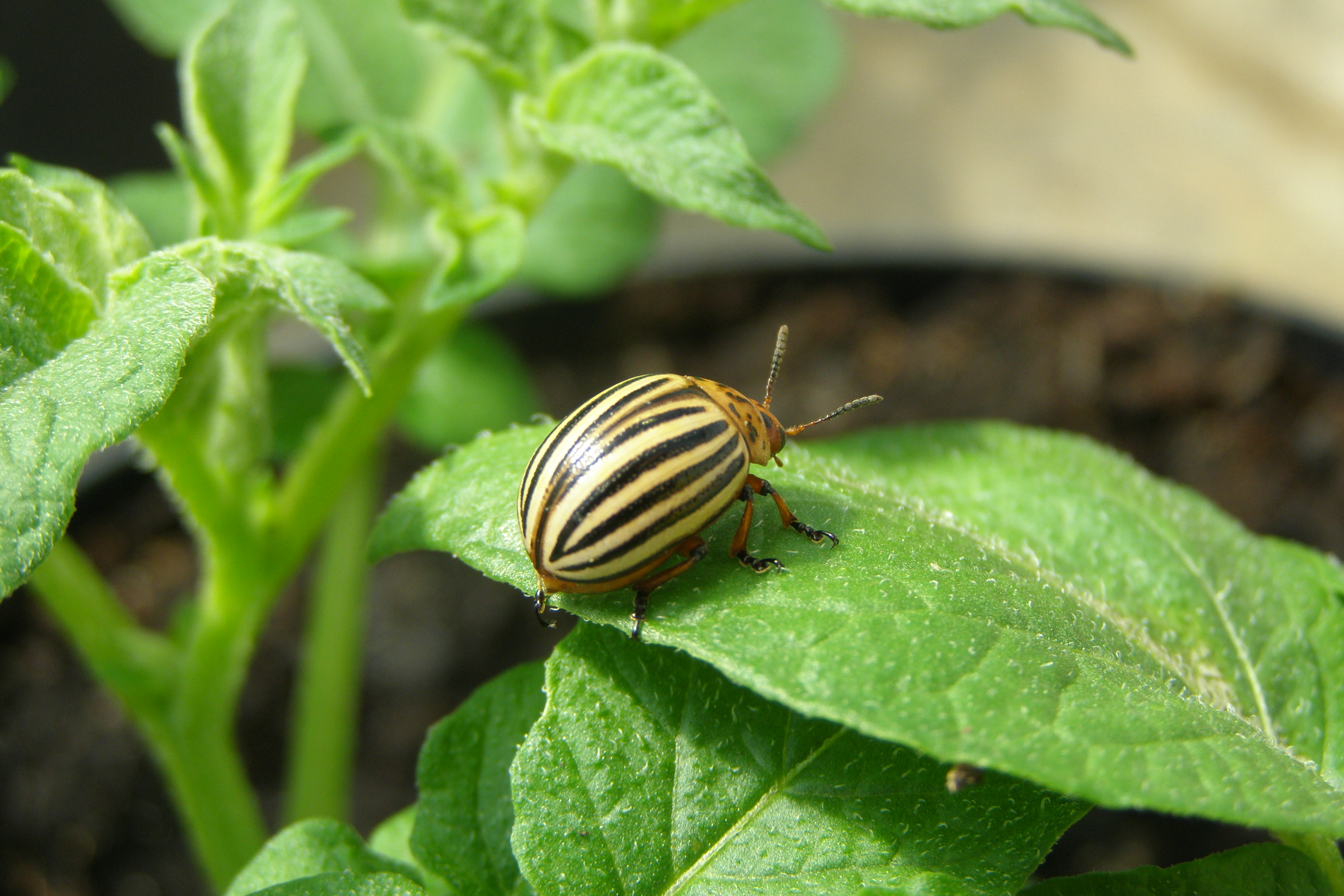 Imago of Colorado potato beetle on leaf.